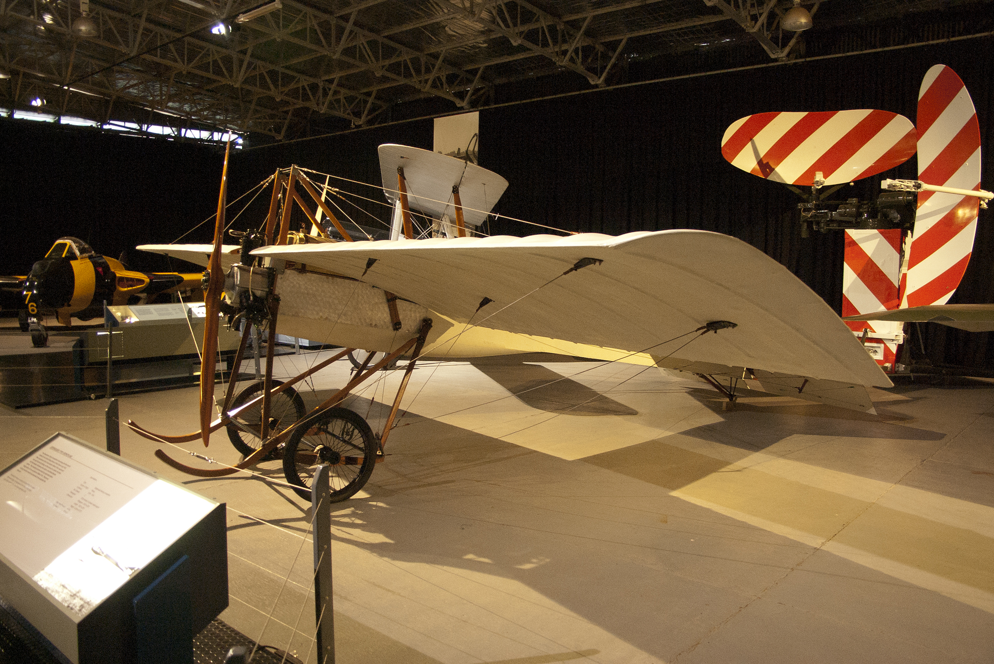 Deperdussin Type A Monoplane on display at the RAAF Museum.